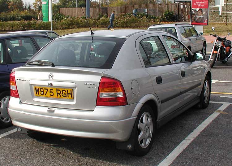 Vauxhall Astra (registered in 2000), seen at a Classics Rally at Slimbridge, Gloucestershire, England, in June 2003.